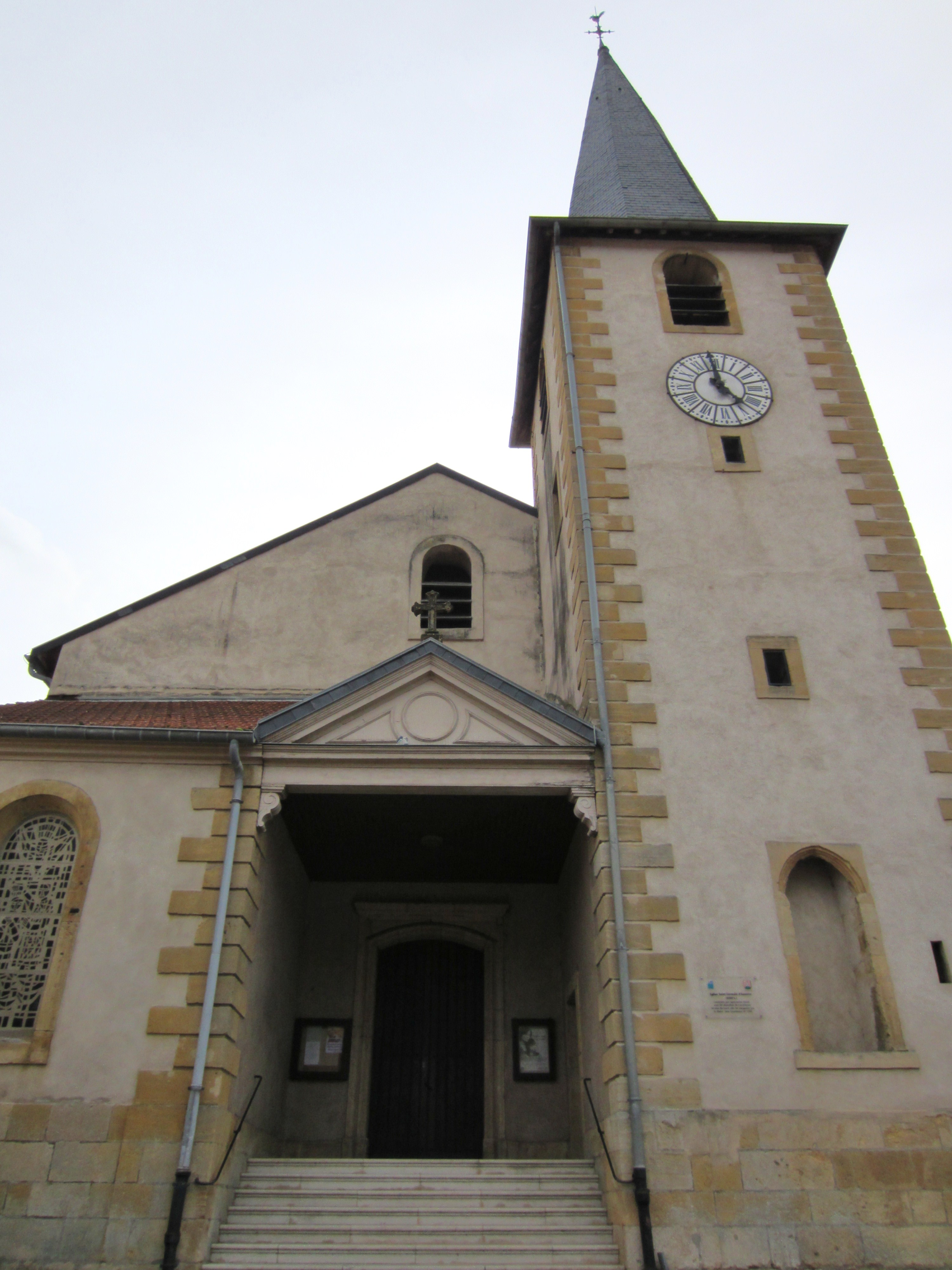 Description eglise Chatel St Germain Date7 September 2011Sourcemon appareil photoAuthorAimelaimePermission (Reusing this file) eglise Chatel St Germain